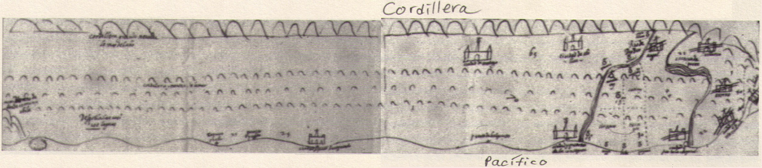 Mapa del Reino de Chile (Map of the Reign of Chile). North is at the left. Map was produced in 1610 as part of a report on the state of the Spanish attempt to supress an indigeneous rebellion in southern Chile (Arauco War, a long-running conflict between colonial Spaniards and the Mapuche people fought in the Araucanía). Published in: Ricardo Padrón, The Spacious World. Cartography, Literature and Empire in the Early Modern Spain, University of Chicago Press 2004, p. 81 (fig. 22).